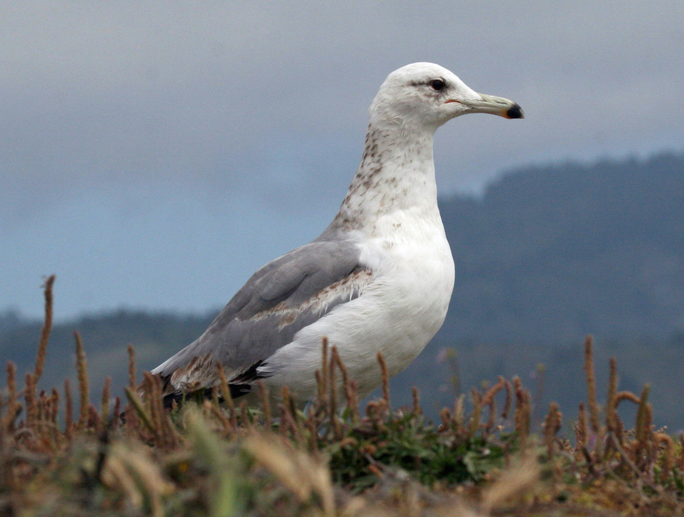 California Gull (Larus californicus)